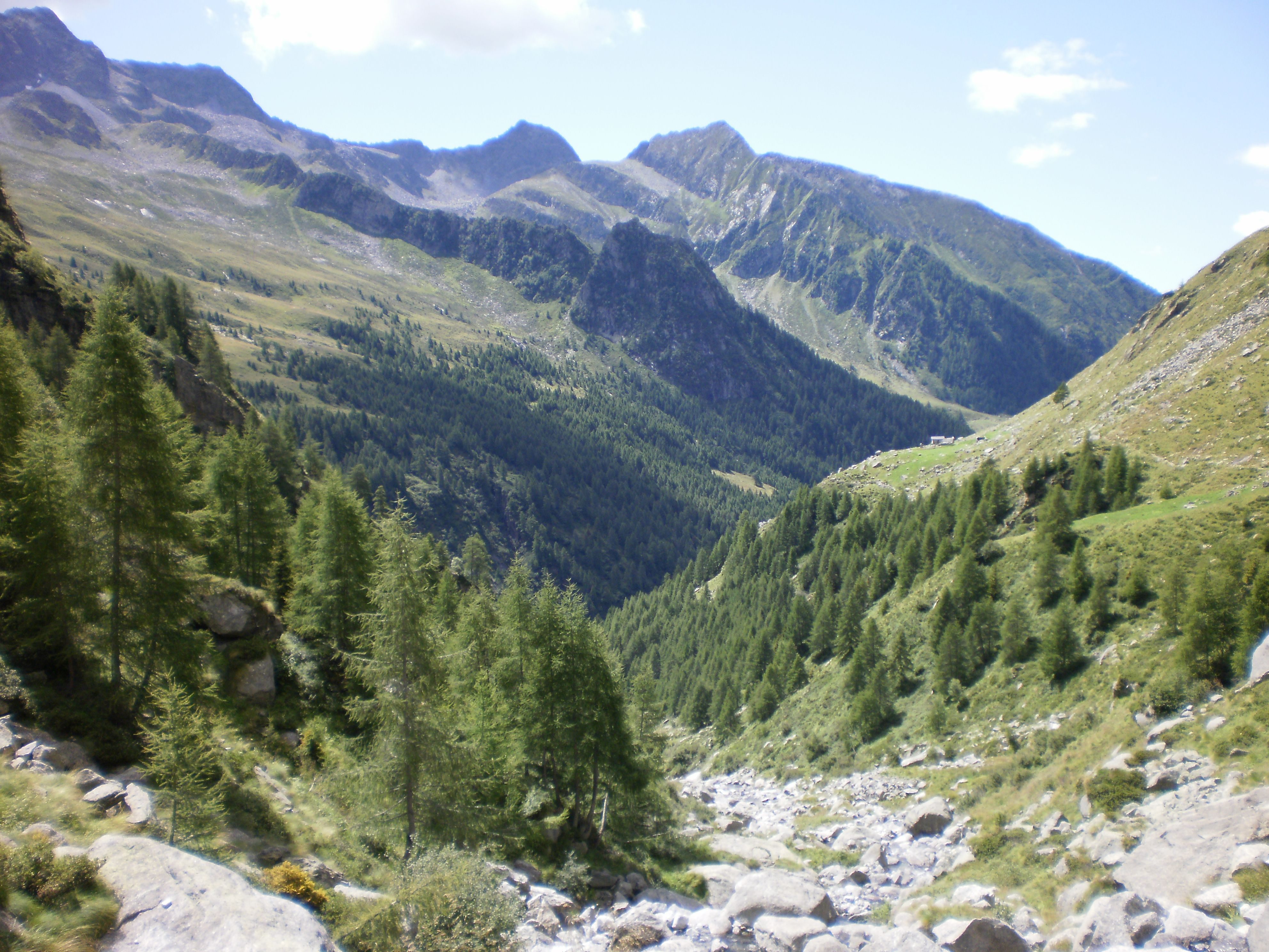 Valle dei Ratti